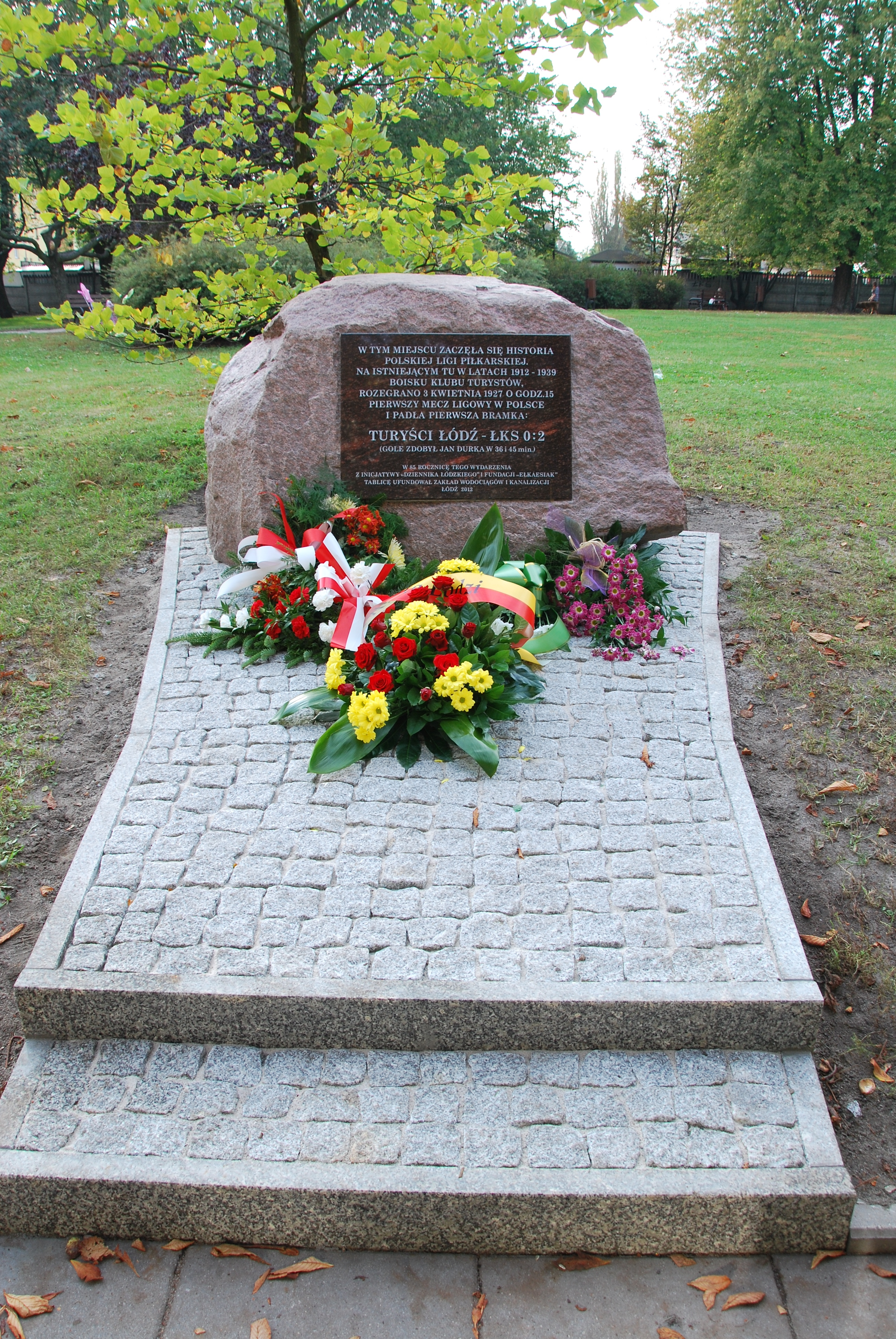 Memorial stone, 1st league footbal match, Łódź 4 Wodna Street